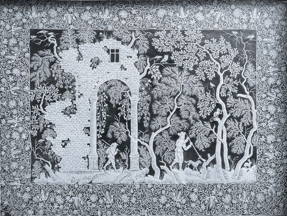 Intricate Paper cutting of a hunting scene by Dutch artist Joanna Koesten. Original in Willet-Holthuysen Museum, Amsterdam.